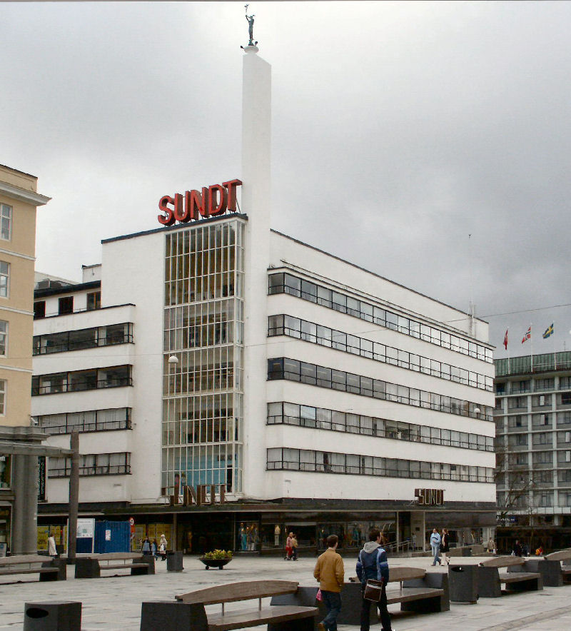 Functionalism, Sundt departemant store 1938, Bergen, Norway. Architect Per Grieg.